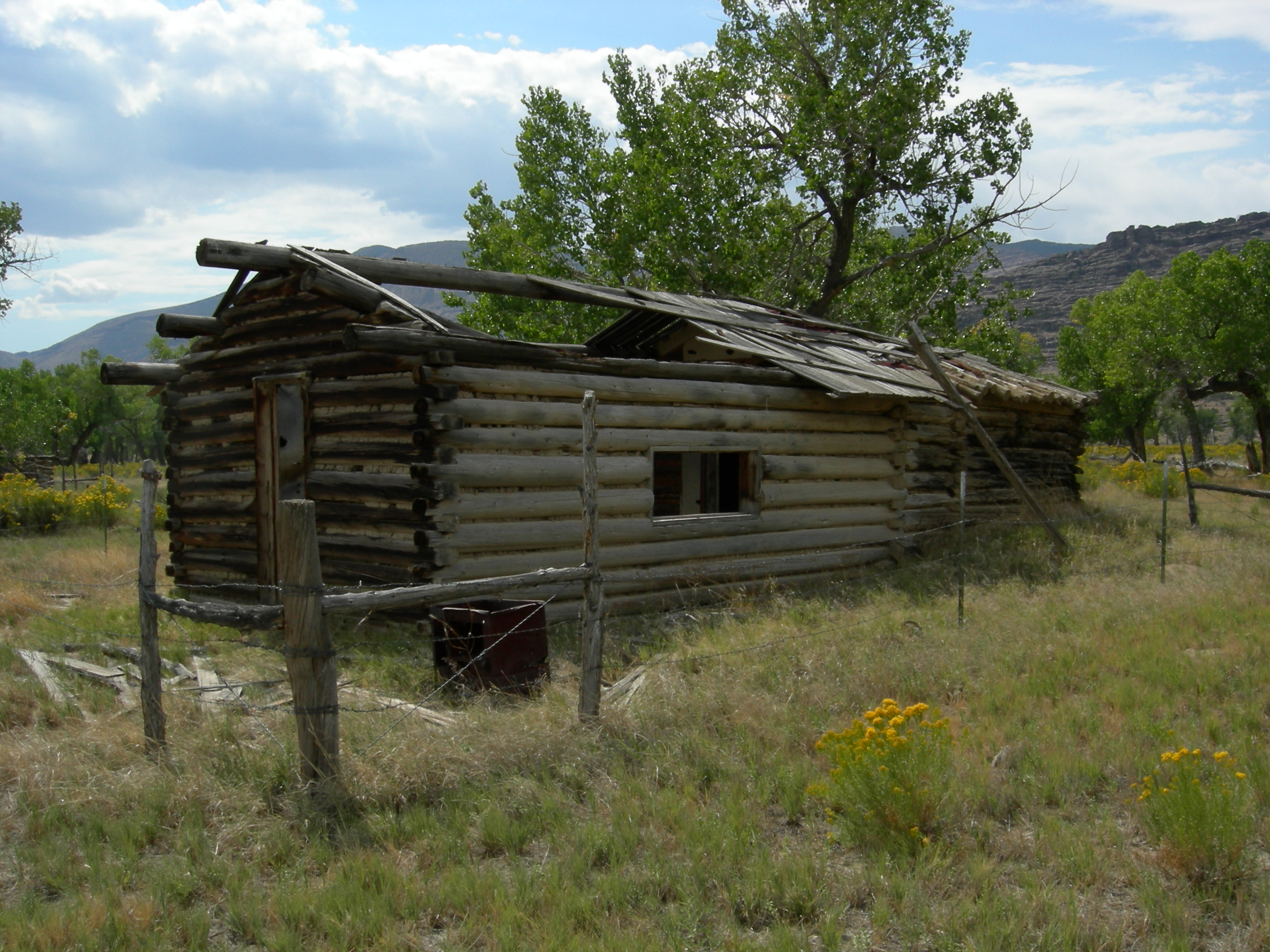 author: Phillip Nickell source: photo by Phillip Nickell [1]